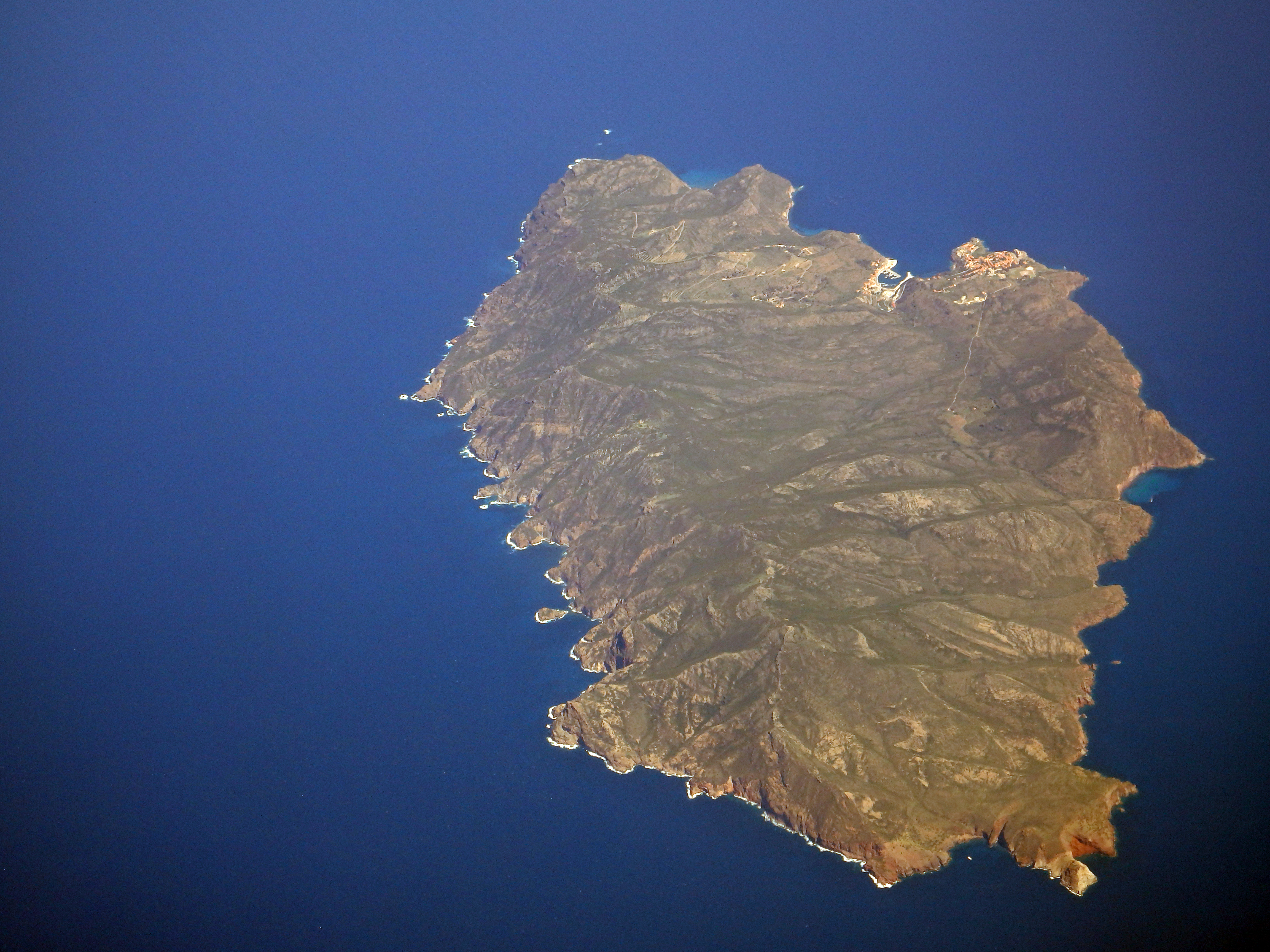 Capraia Isola